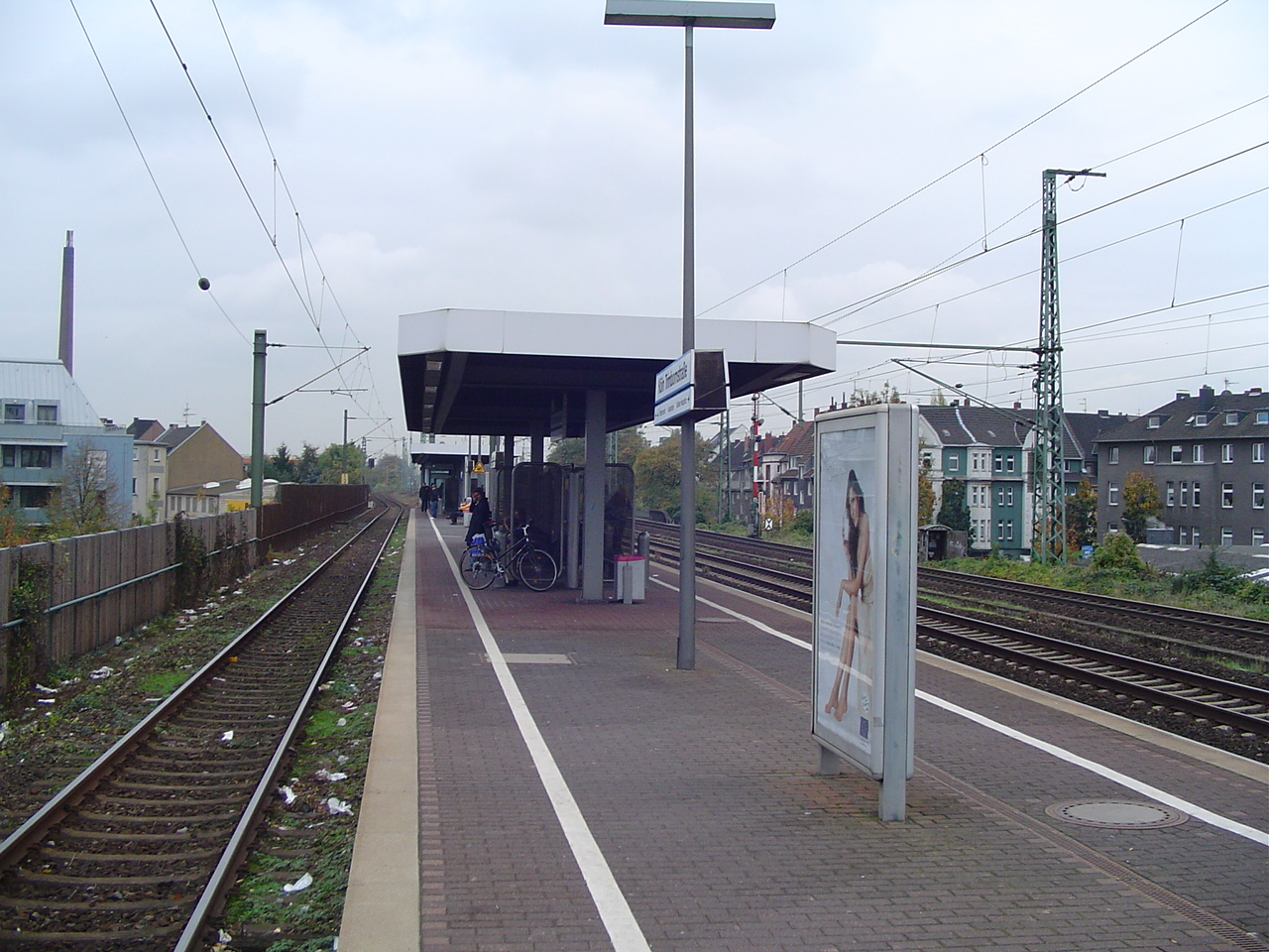 Köln Trimbornstraße train stop in Cologne, Germany